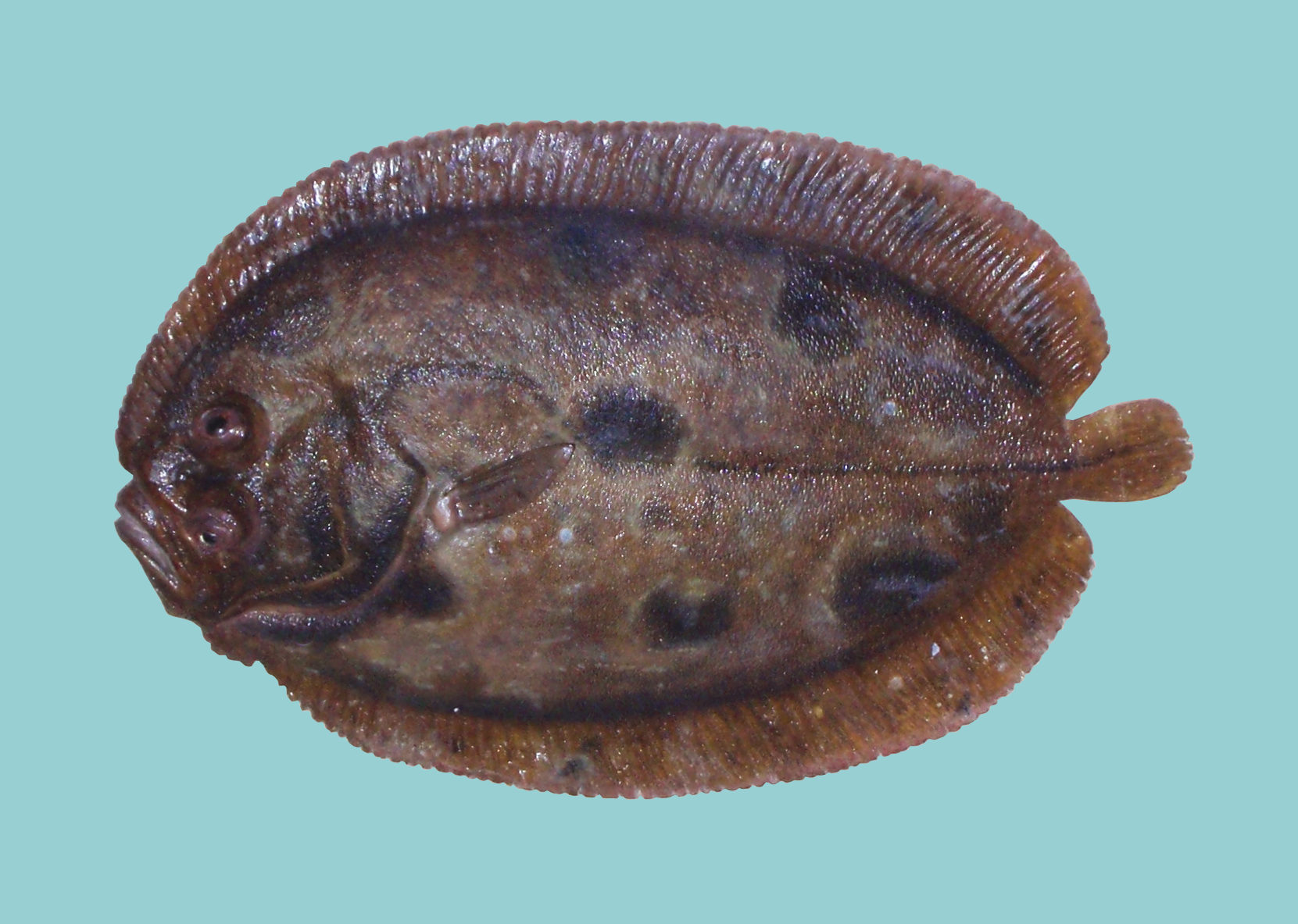 Topknot (Zeugopterus punctatus) from Bohusläns Museum in Uddevalla, Sweden).